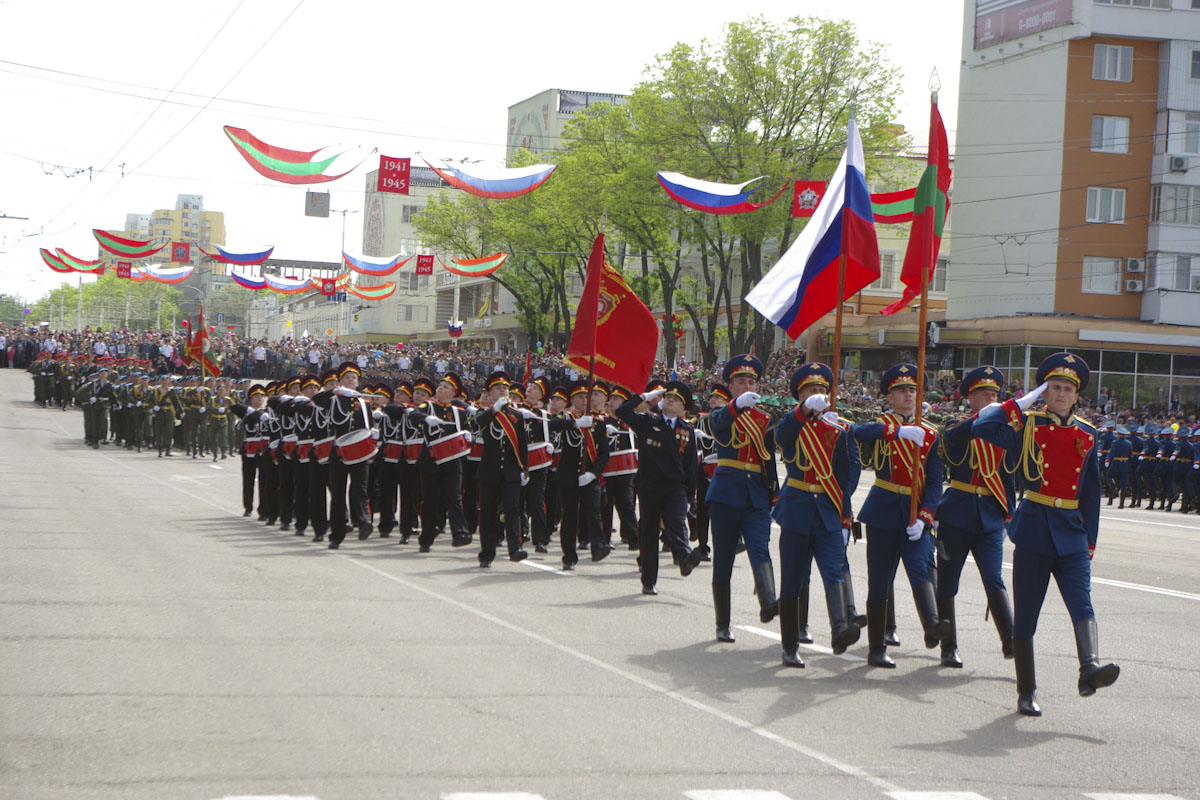 The ceremonial events devoted to the 72nd anniversary of the Great Victory in Tiraspol.